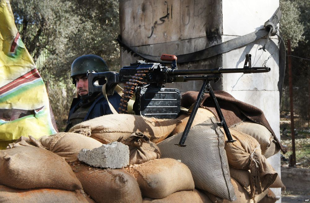 Damascus Checkpoint, Jan. 14, 2012. Photo taken by VOA Middle East correspondent Elizabeth Arrott while traveling through Damascus with government escorts.